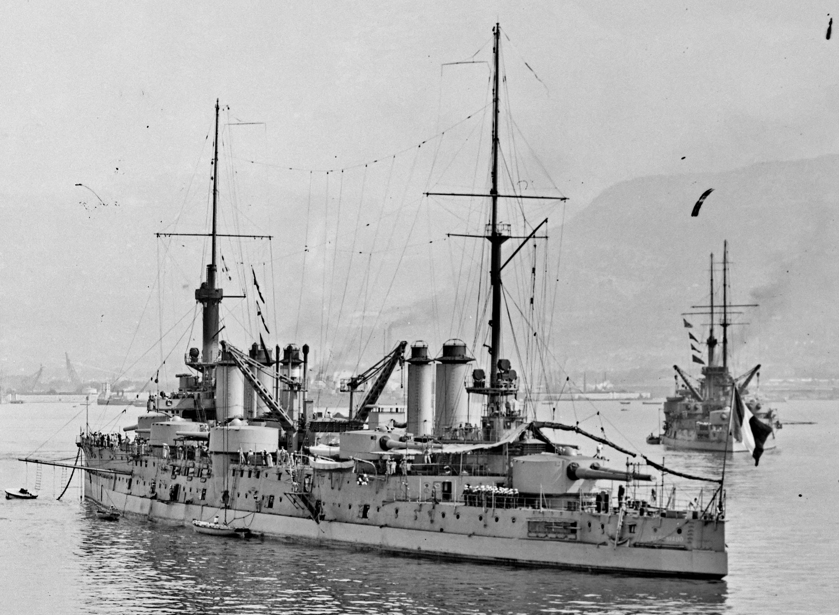 Danton-class battleship Vergniaud of the French Marine nationale during a naval drill in Toulon.